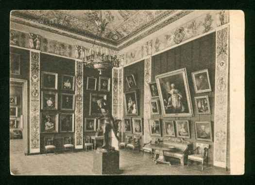 Saint Petersburg (Russia), Russian Museum.